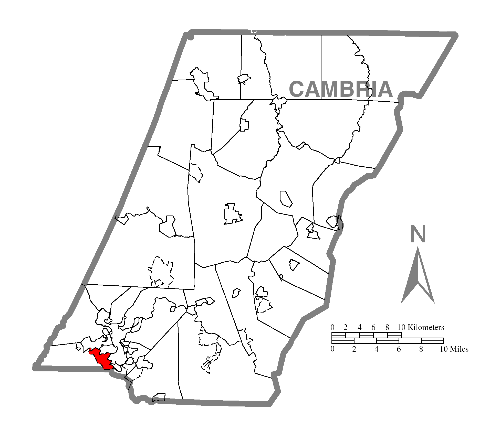 A map of Cambria County showing Elim, Pennsylvania (alternate) highlighted on the map.